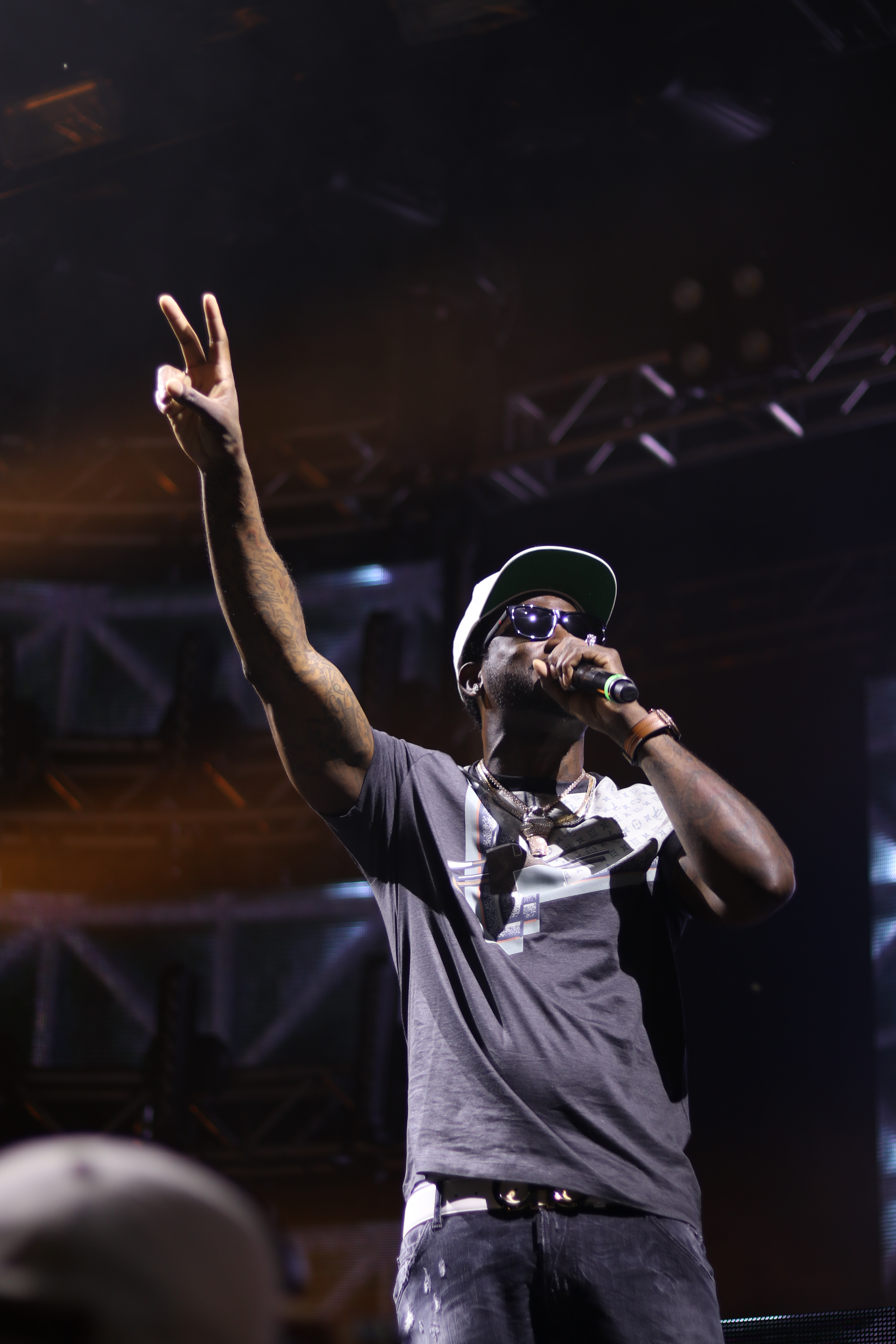 Rap artist Gucci Mane performing at 515 Alive in Des Moines, IA on 8/18/17 Rap artist Gucci Mane performing at 515 Alive in Des Moines, IA on 8/18/17